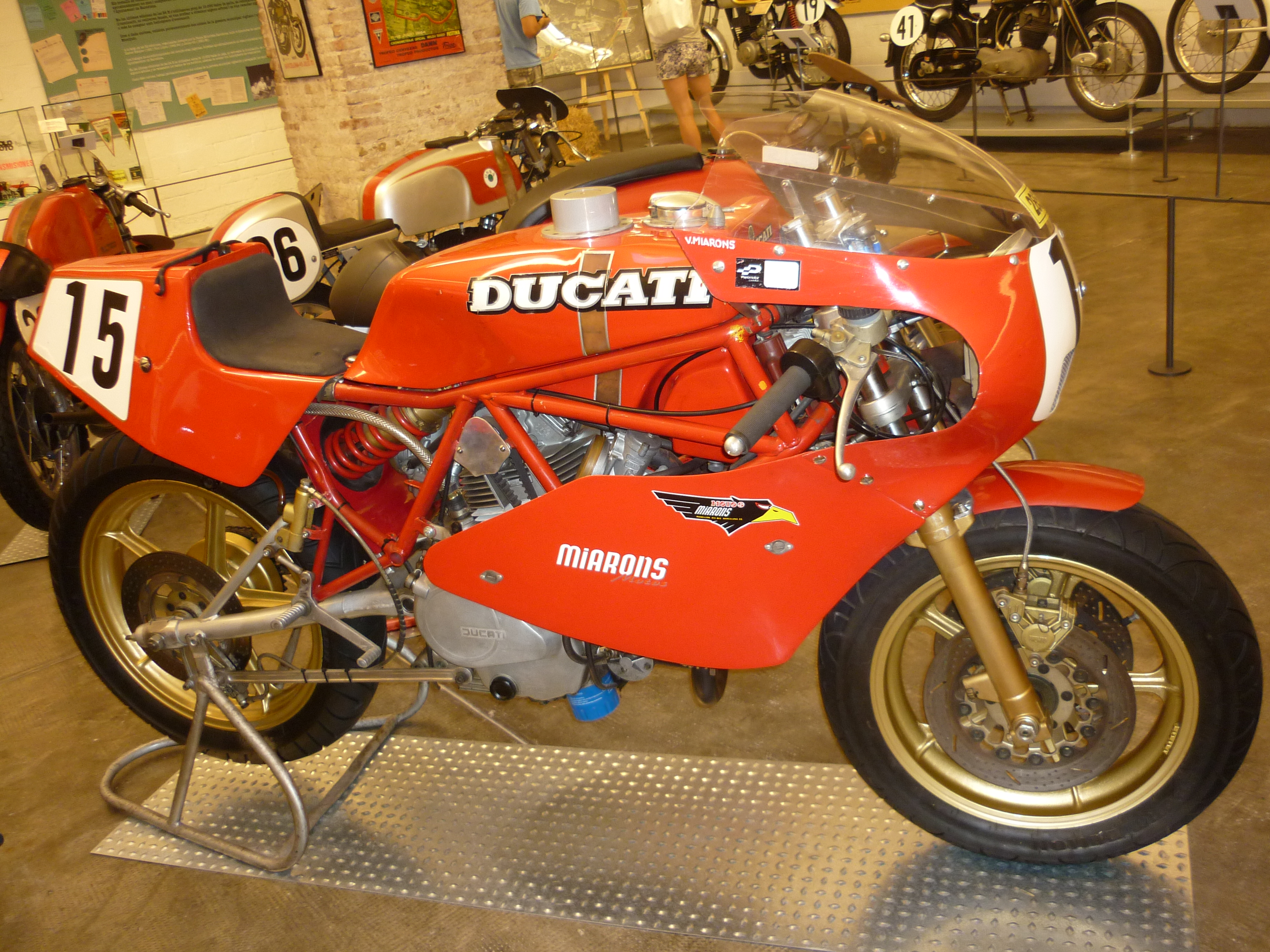 Ducati 750cc. On this bike, Benjamí Grau, Quique De Juan and Luis Miguel Reyes won the XXIX 24 Hours of Montjuïc, on 1983